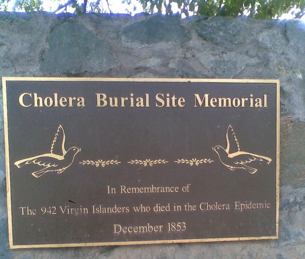 Photo of the Cholera Memorial, Road Town, BVI